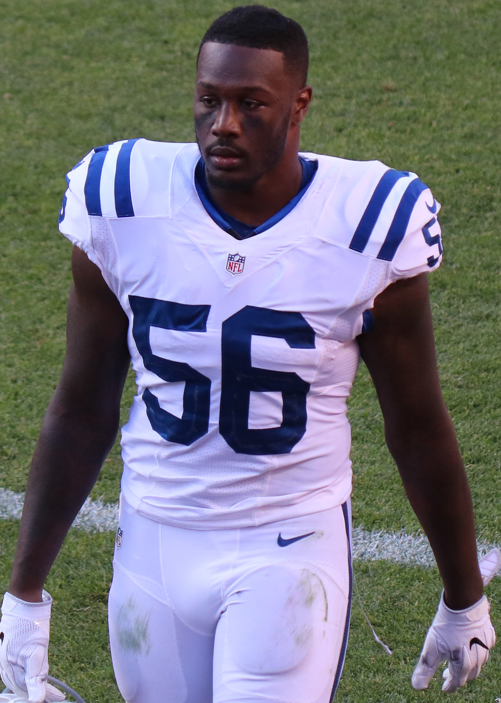 Akeem Ayers, a player on the National Football League.